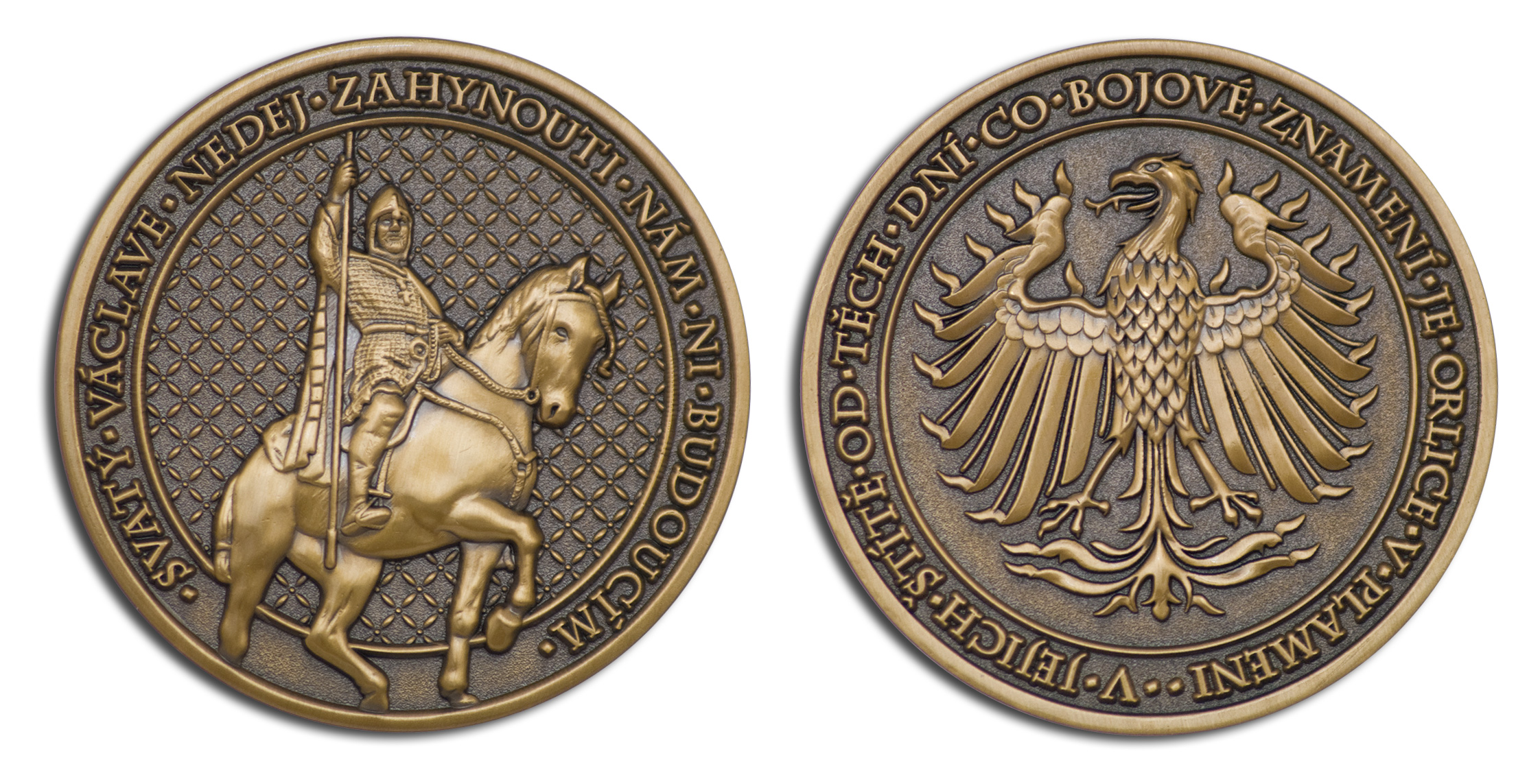 Svaty Vaclav (Saint Wenceslas) geocoin in Antque Gold finish